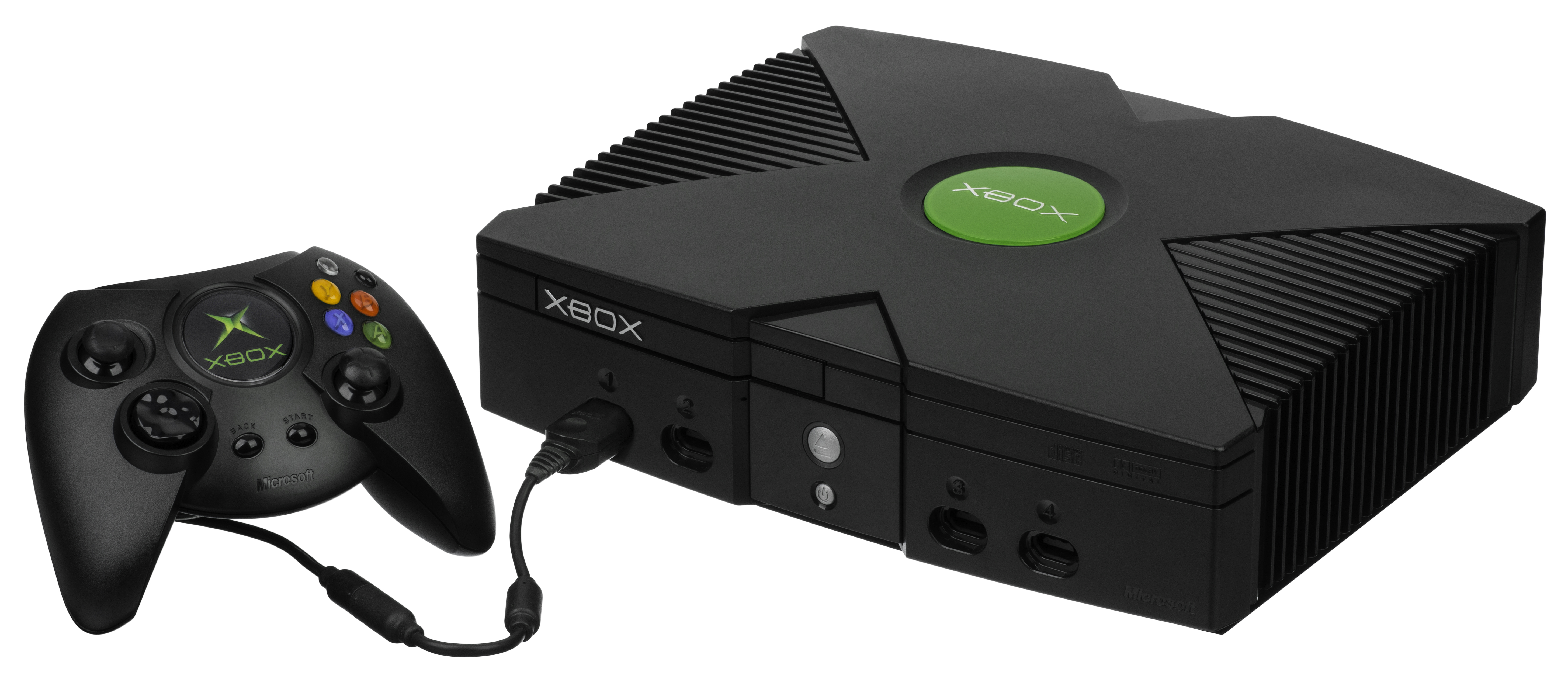 The Xbox, a sixth-generation gaming console made by Microsoft that was first released in 2001. The Xbox was Microsoft's first foray into the gaming console market, and was followed by the Xbox 360 in 2005. The console is shown here with the Duke controller, the original pack-in controller, which was later replaced by a smaller "S" controller. The console is notable for having a built-in hard drive, breakaway controller dongles and an Ethernet port to support Microsoft's online gaming service, Xbox Live.